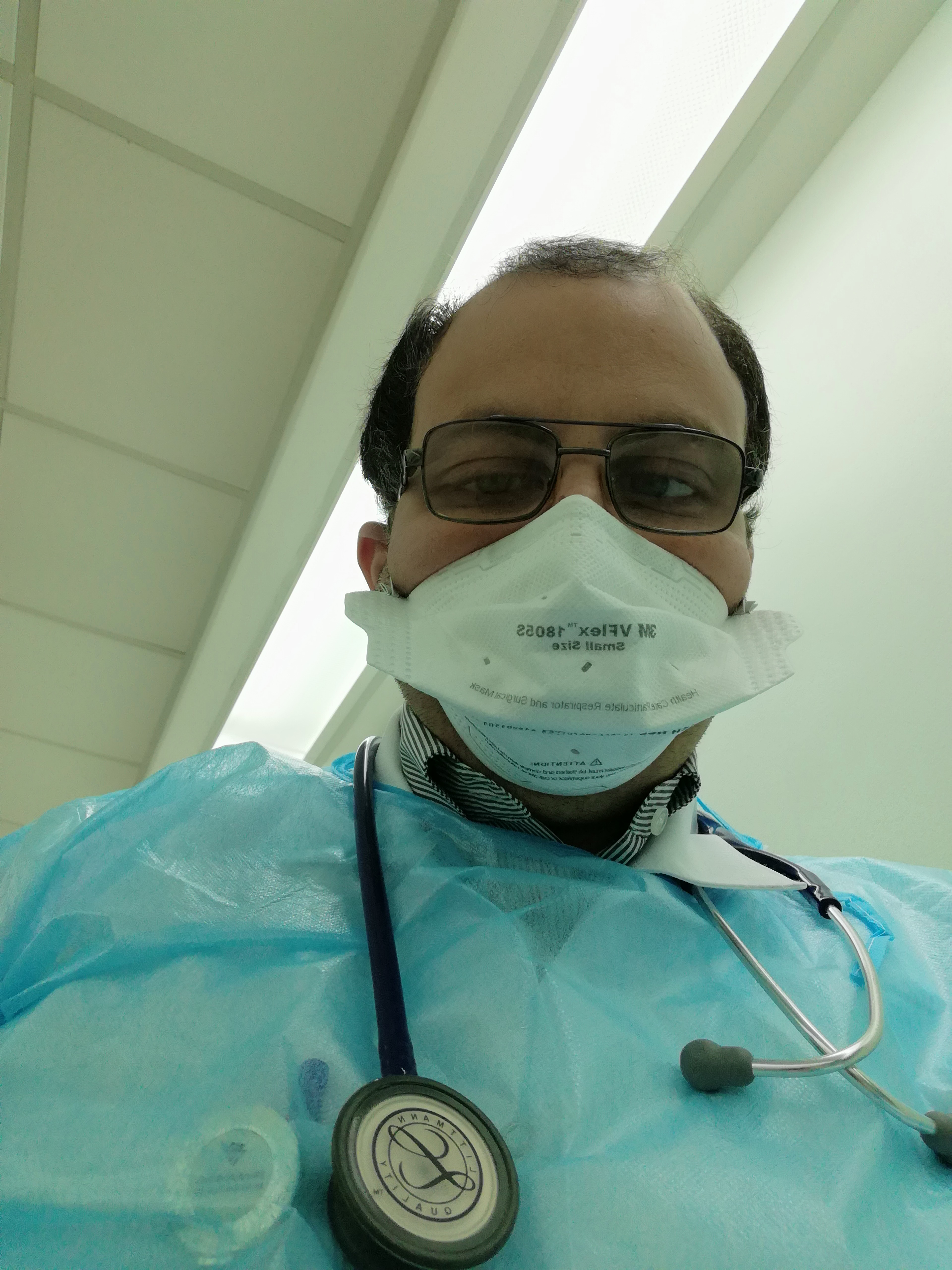 N95 mask while visiting a tuberculosis case